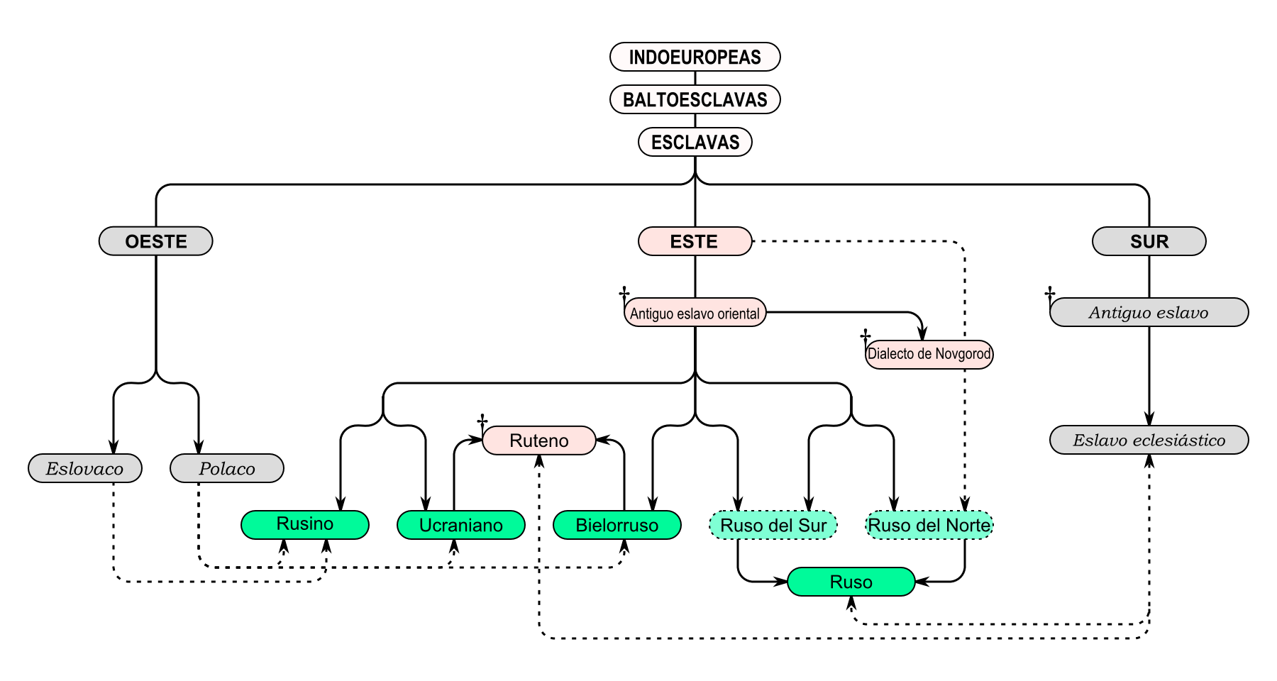 East Slavic Languages Tree (in Spanish)